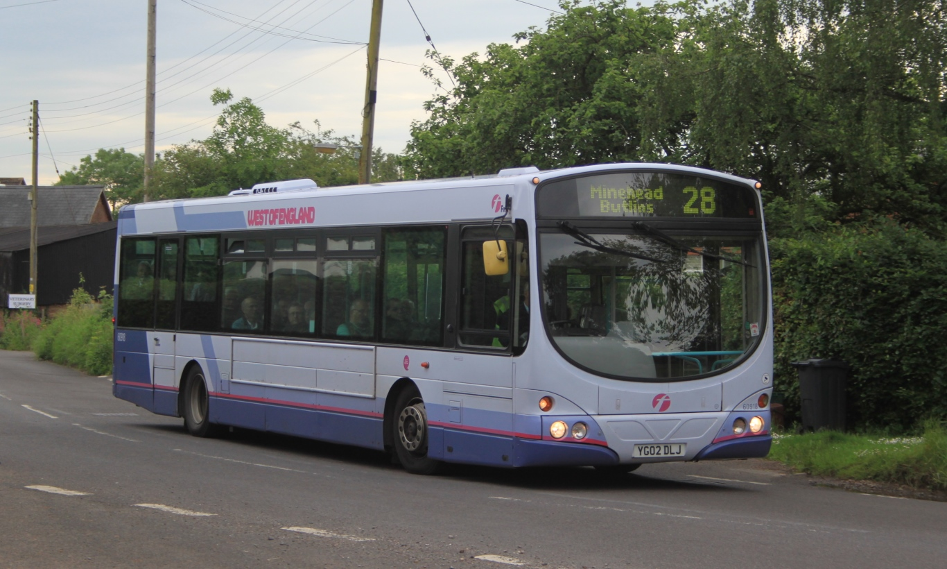 On route from Taunton to Minehead, First's 60918 (a Wright Eclipse Urban registered YG02DLJ) passes through Bishops Lydeard.